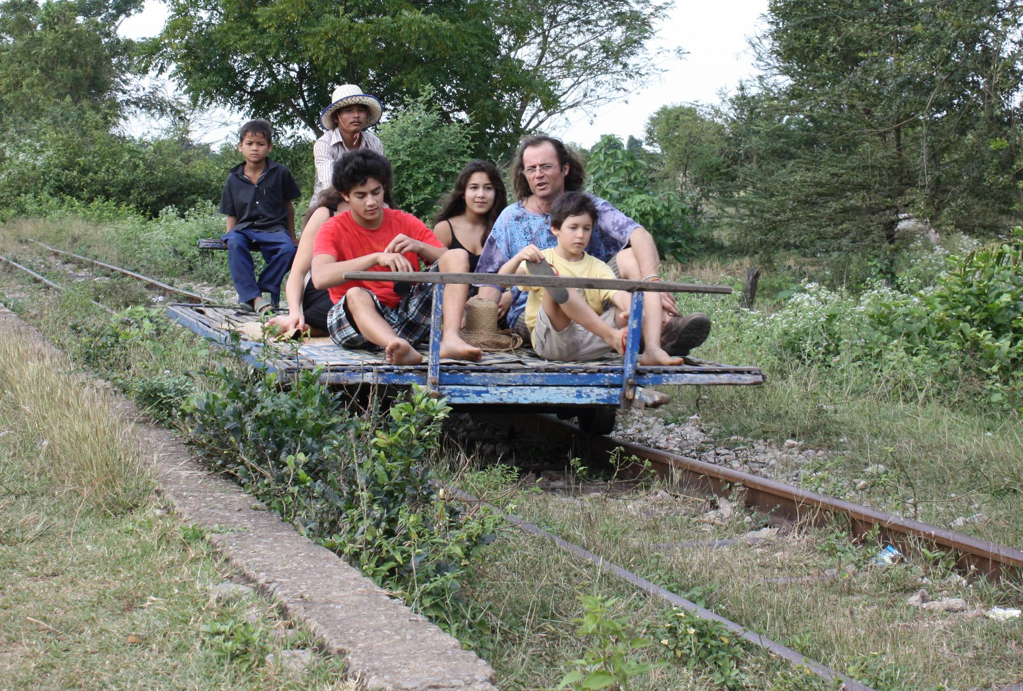 Tourists arriving at a station on norry, Battambang.